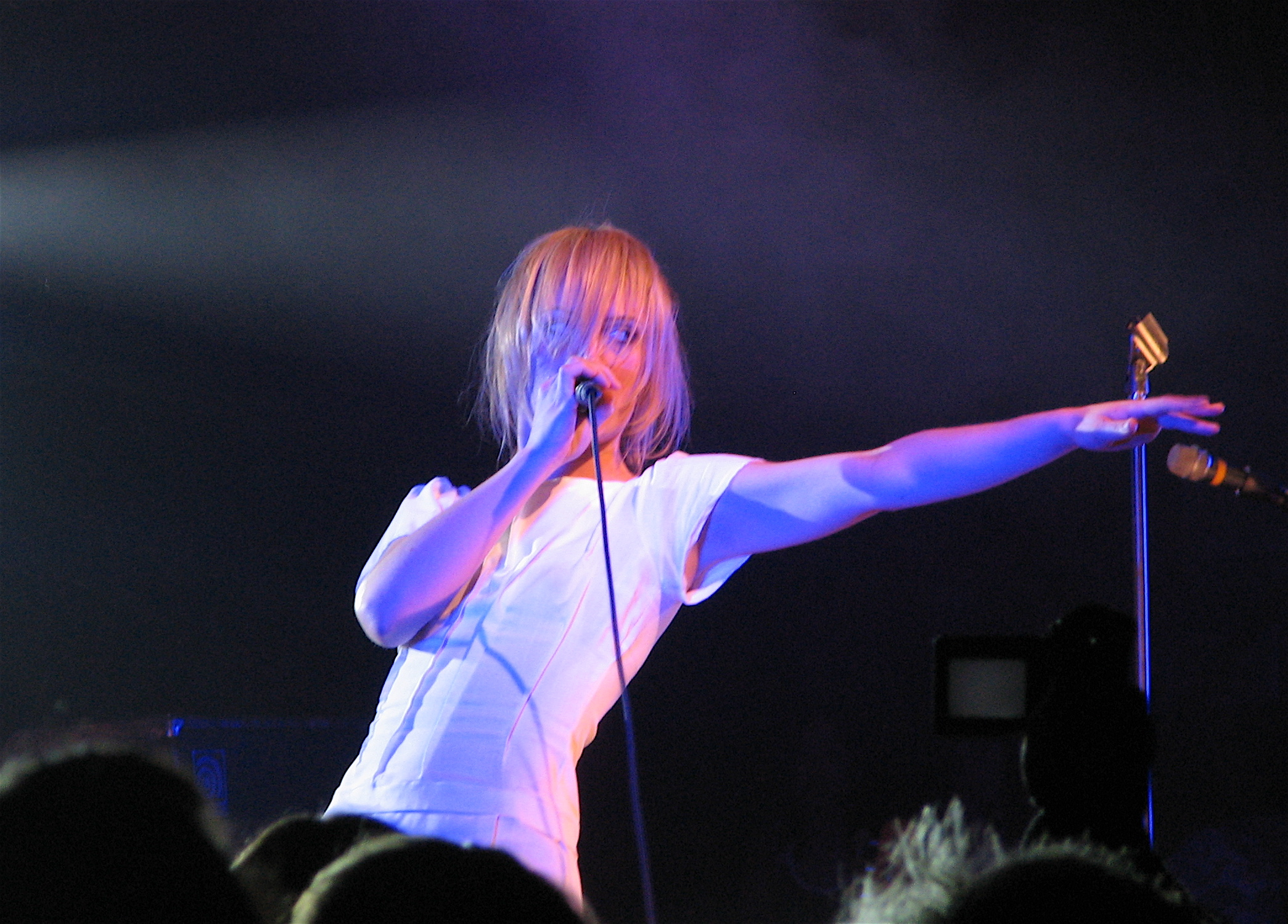 Emily Haines of Metric. A Cropped and edited version of this photo exists here You can catch some live videos here